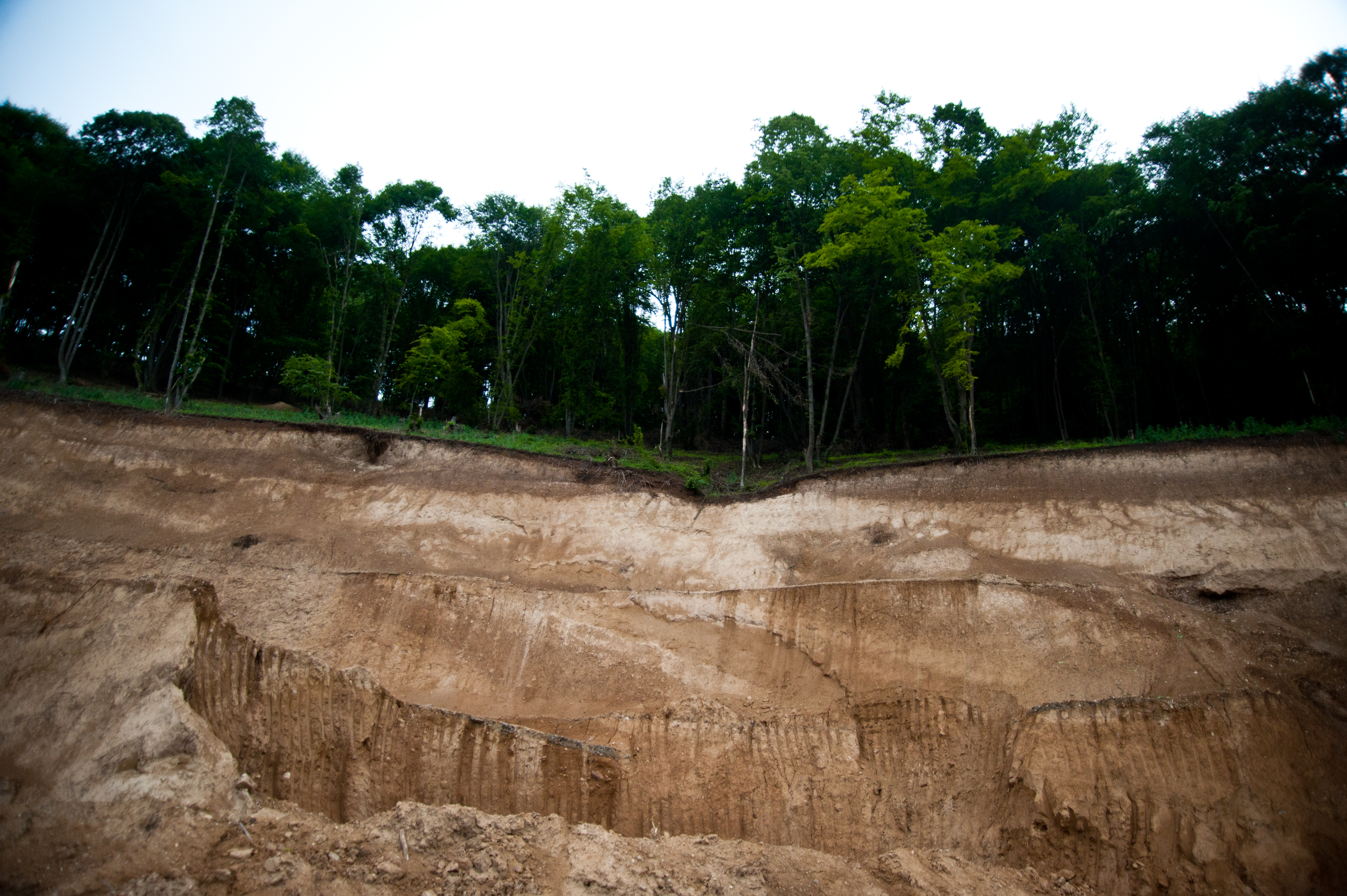 Forest destruction to make way for an open-pit copper and molybdenum mine in Teghut in Armenia's northern Lori province.